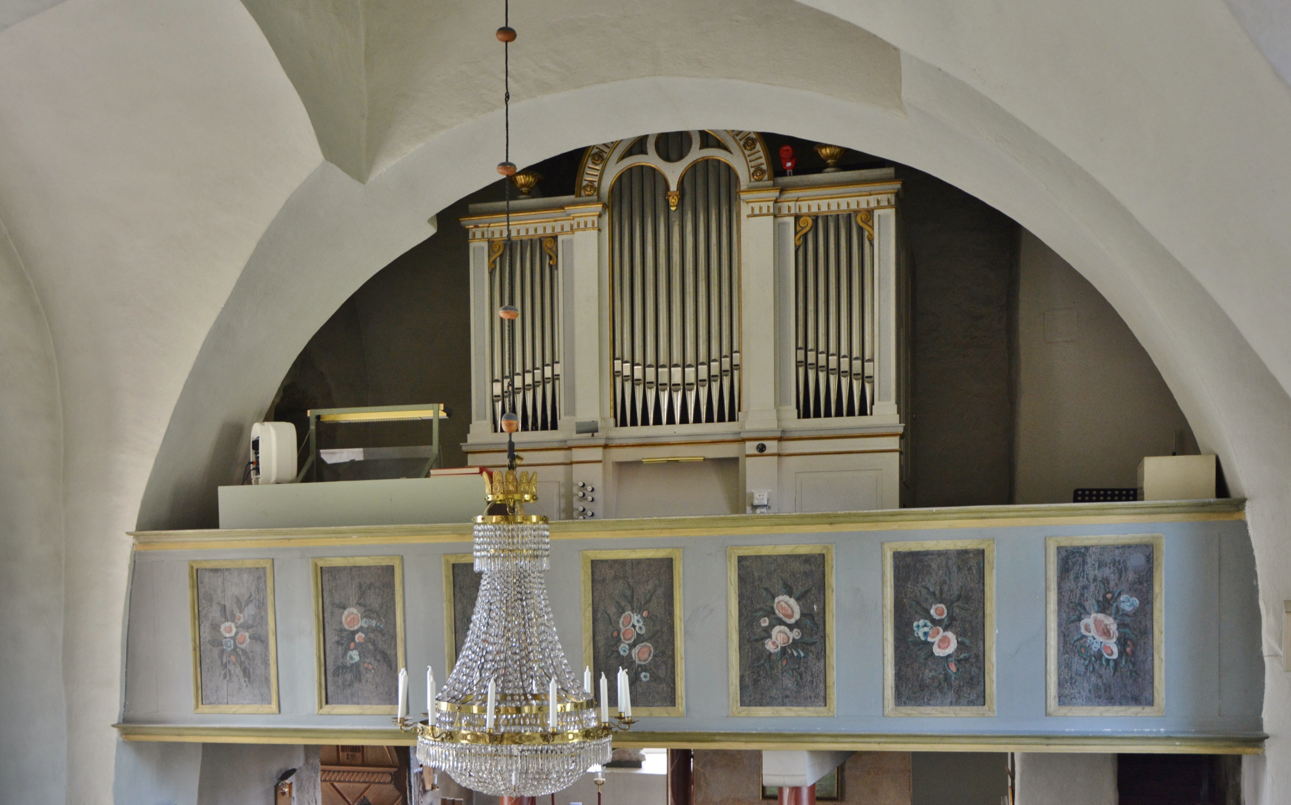 Hossmo Church.The organ